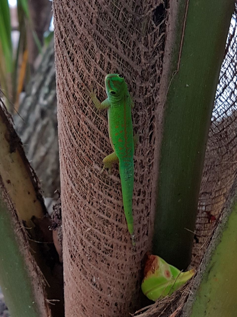 Phelsuma astriata. Photo taken in Praslin, Seychelles by Stewart Allen.